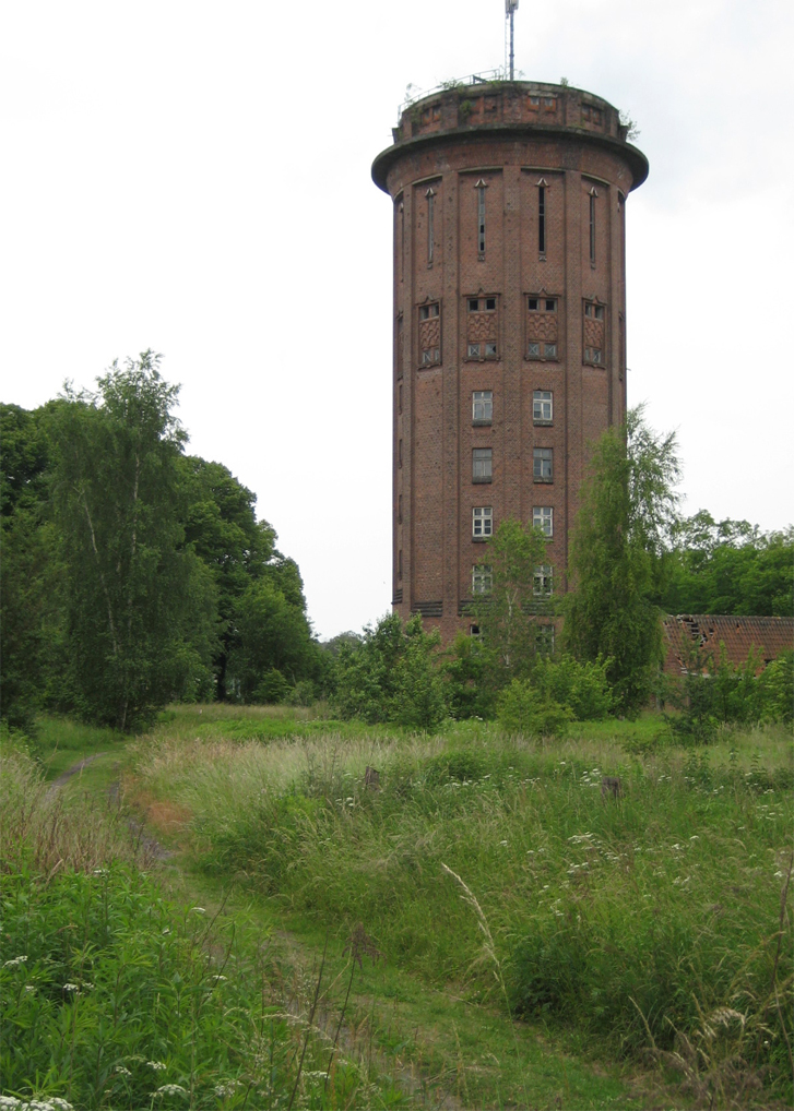 Hagenow Land water supply tower